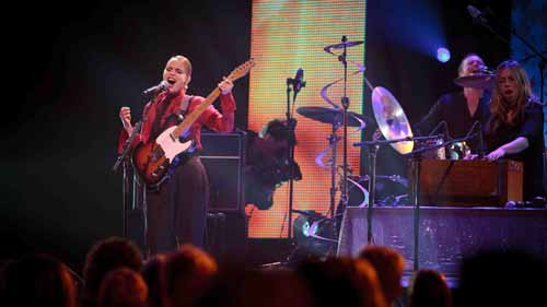 EBBA Awards 2012 -- Anna Calvi -- by Mike Breeuwer